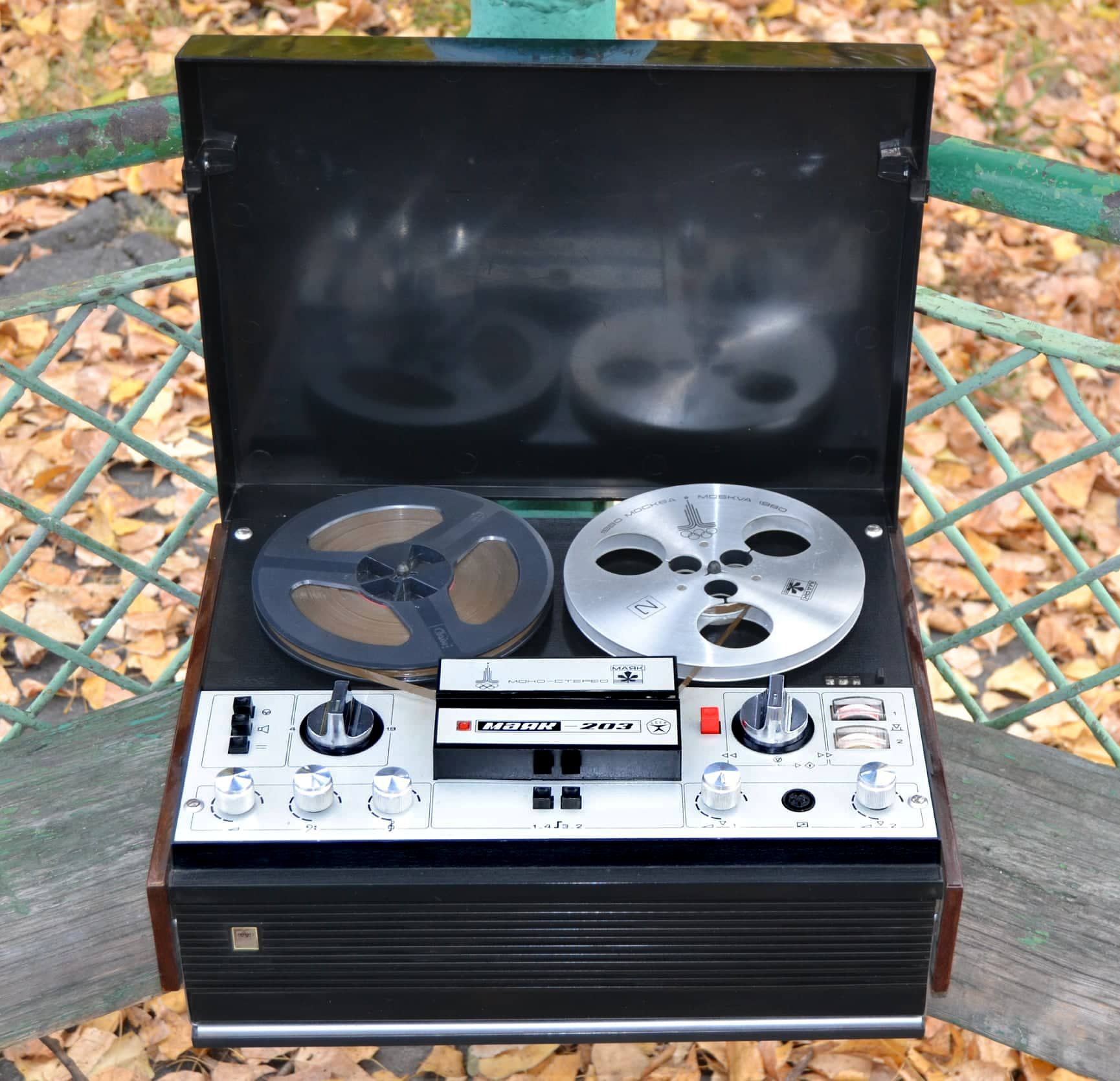 USSR (Ukraine) “Mayak-203” tape recorder 1976. Four-track stereo, three speeds.